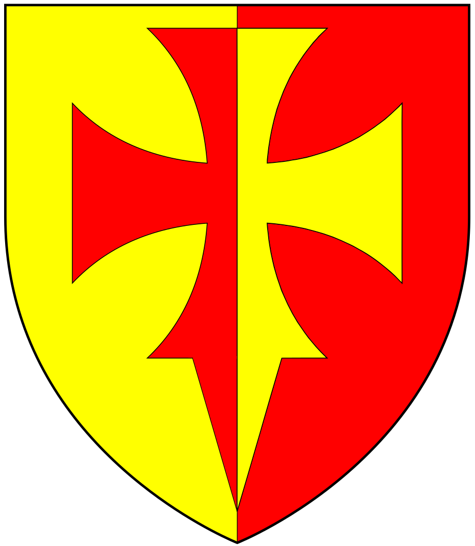 Arms of Clopton of Clopton, in the parish of Stratford-upon-Avon, Warwickshire: Per pale or and gules, a cross patée fitchée counterchanged. As seen on the monument to George Carew, 1st Earl of Totnes (1555–1629), and his wife Joyce Clopton (d.1637) in the Church of the Holy Trinity, Stratford-upon-Avon. (Source: Bloom, James Harvey, Shakespeare's Church: Otherwise the Collegiate Church of the Holy Trinity of Stratford-upon-Avon, 1902, pp.158-164[1])